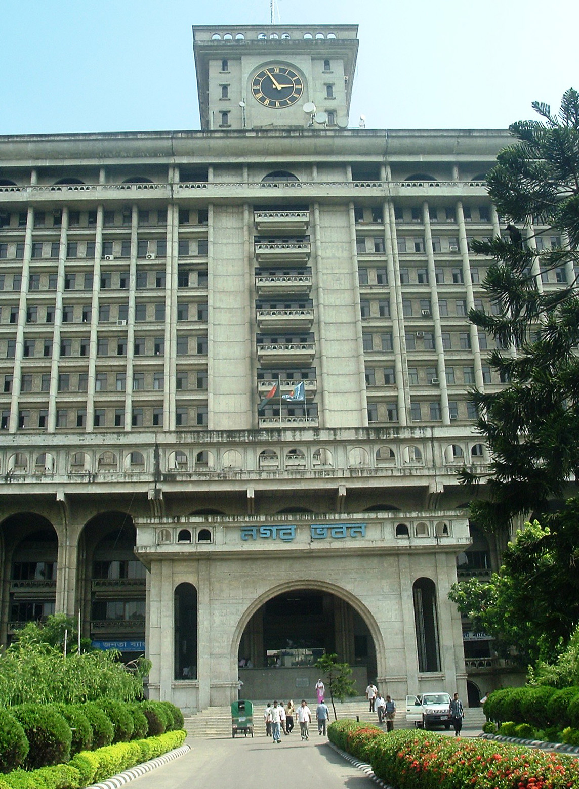 Dhaka City Corporation Building.